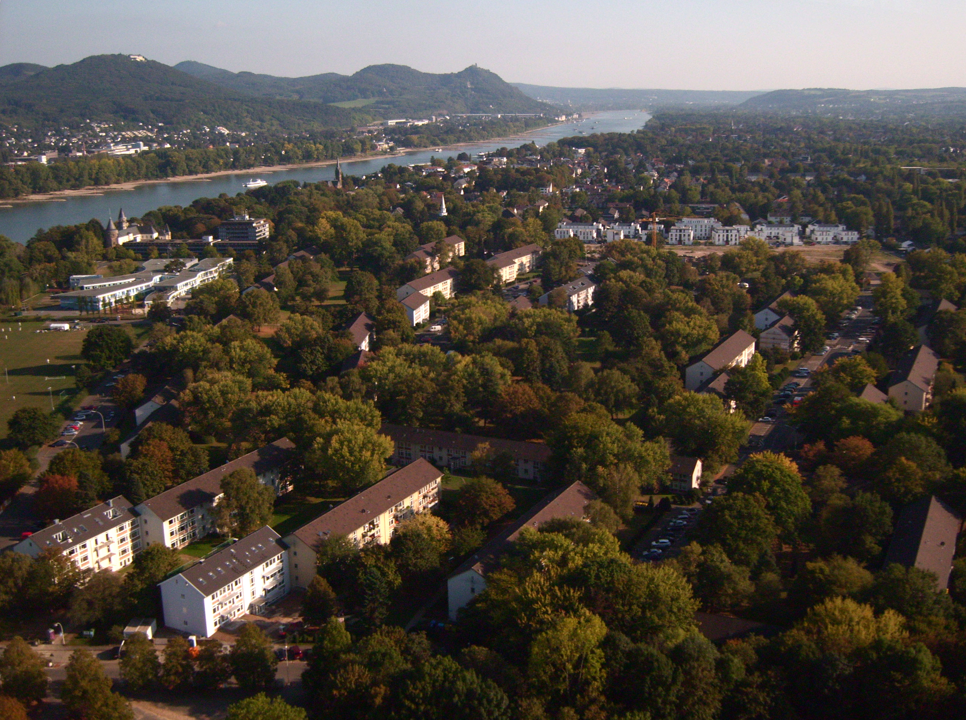 Aerial photograph of the HICOG settlement in Plittersdorf